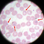 Microscopic view of malaria parasites in a blood smear from an infected person.